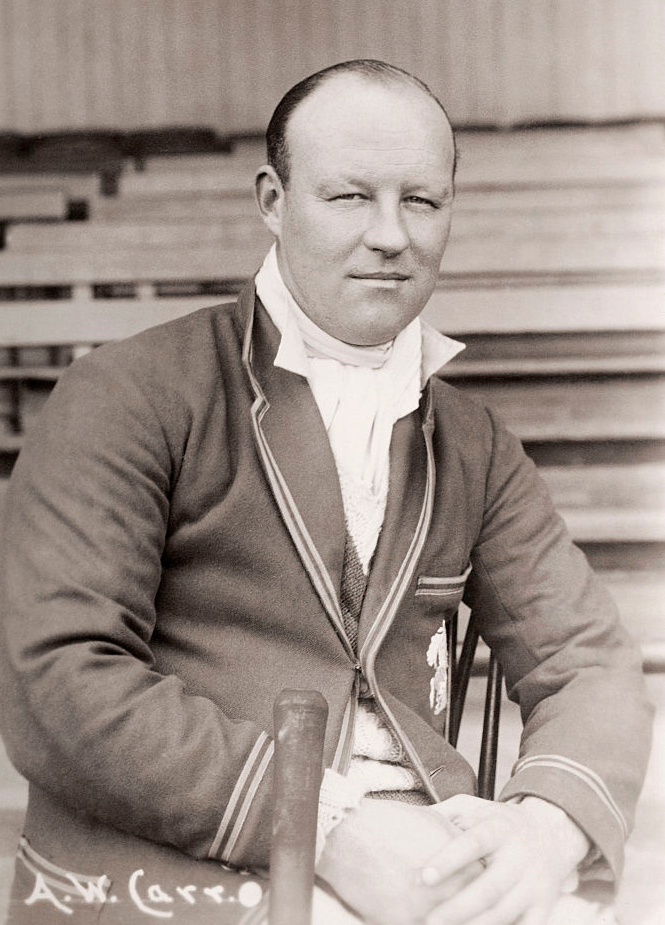 Arthur William Carr, captain of both the Nottinghamshire County Cricket Club and the English cricket team, circa 1925.